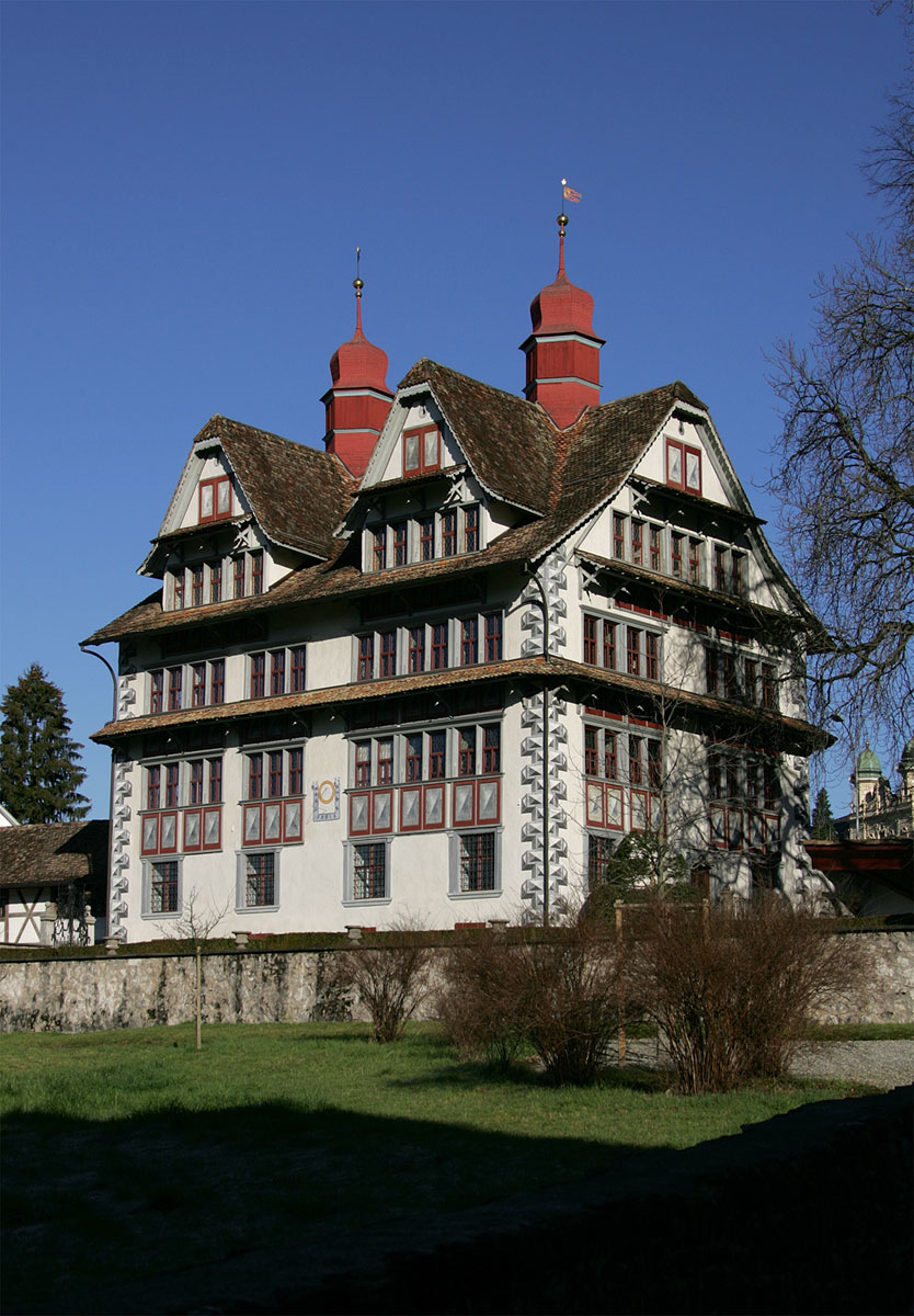 Ital Reding Hofstatt